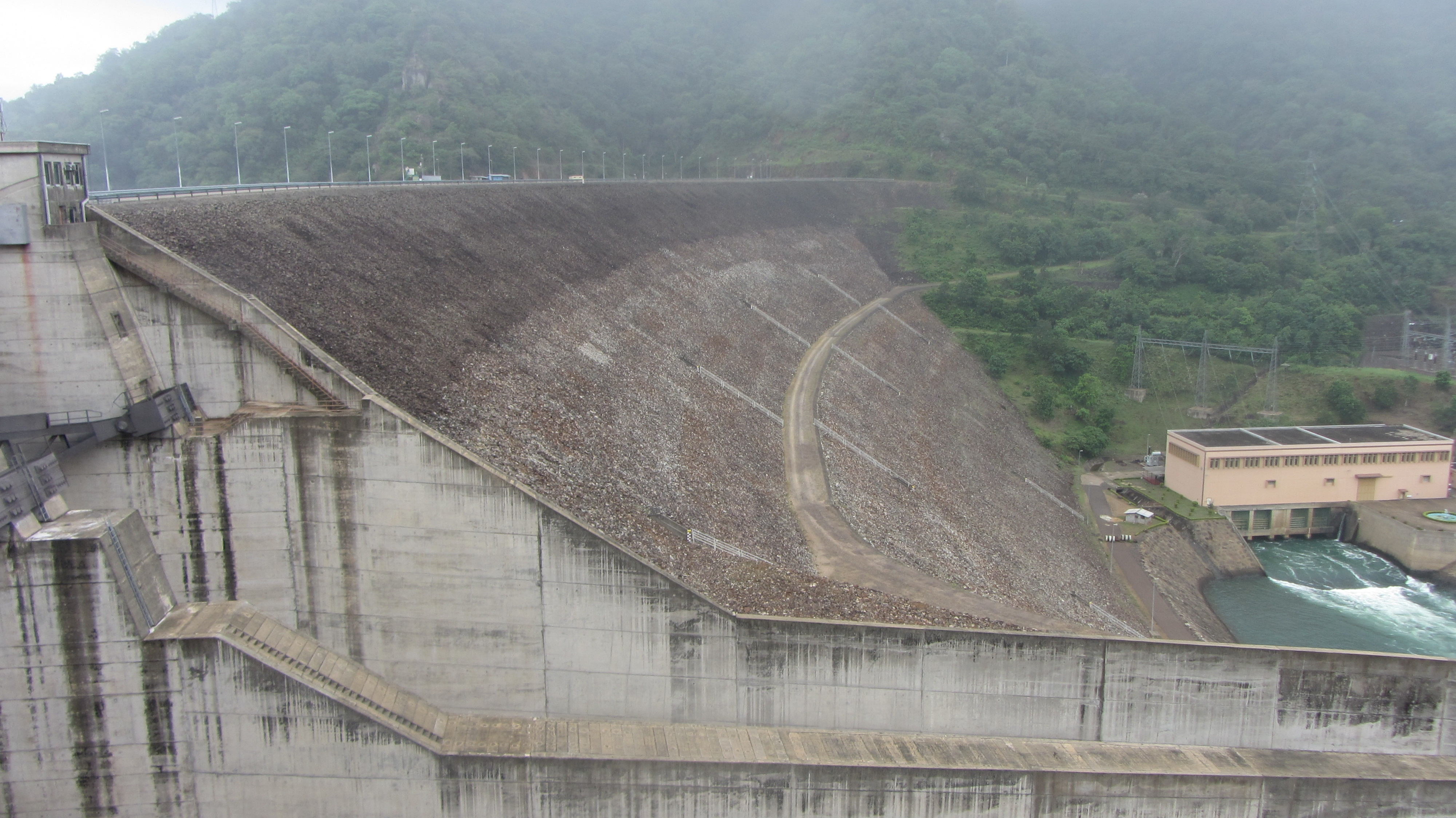 The Randenigala Dam, in Sri Lanka. The power station can be seen in the lower-right.